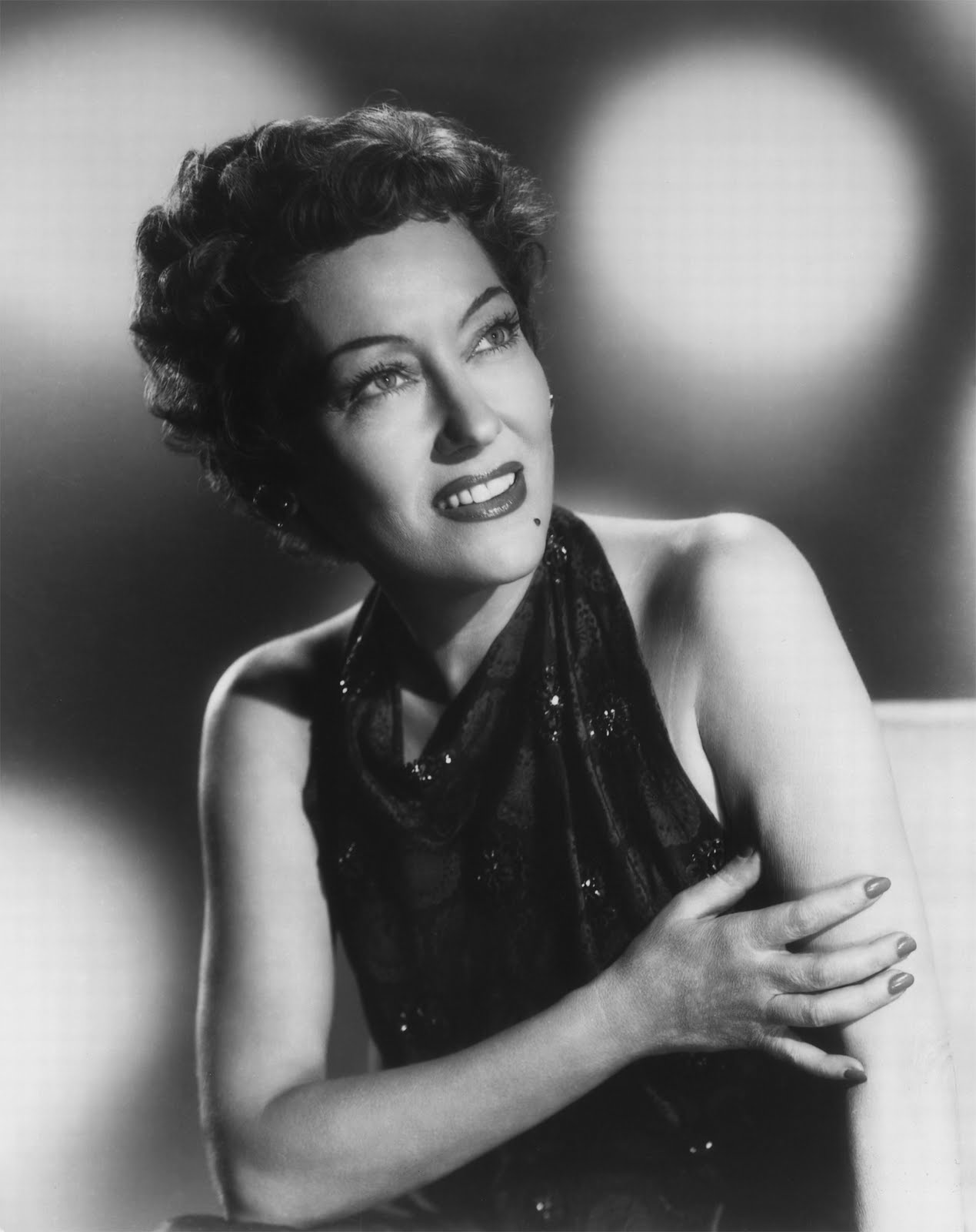 Promotional photograph of actor Gloria Swanson (1950s)